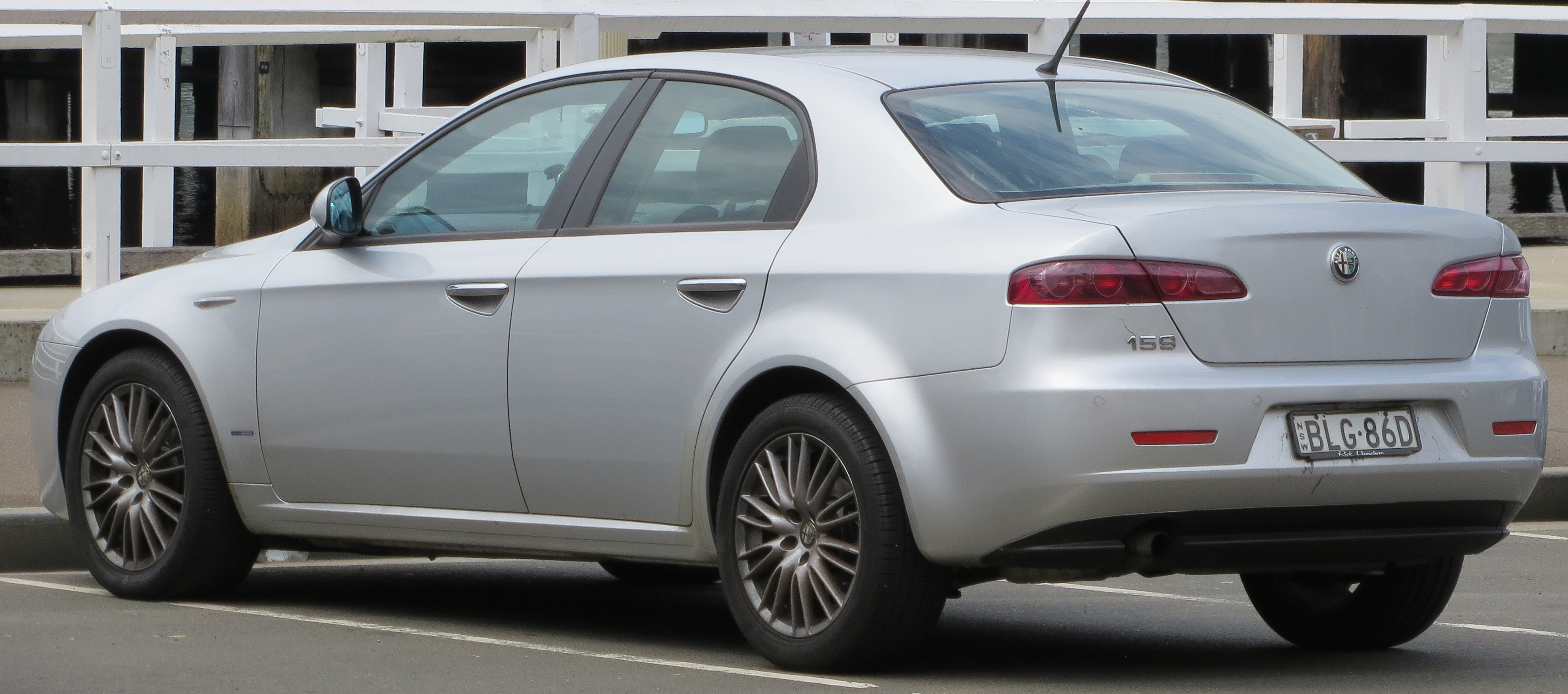 2009 Alfa Romeo 159 sedan. Photographed in Millers Point, New South Wales, Australia.